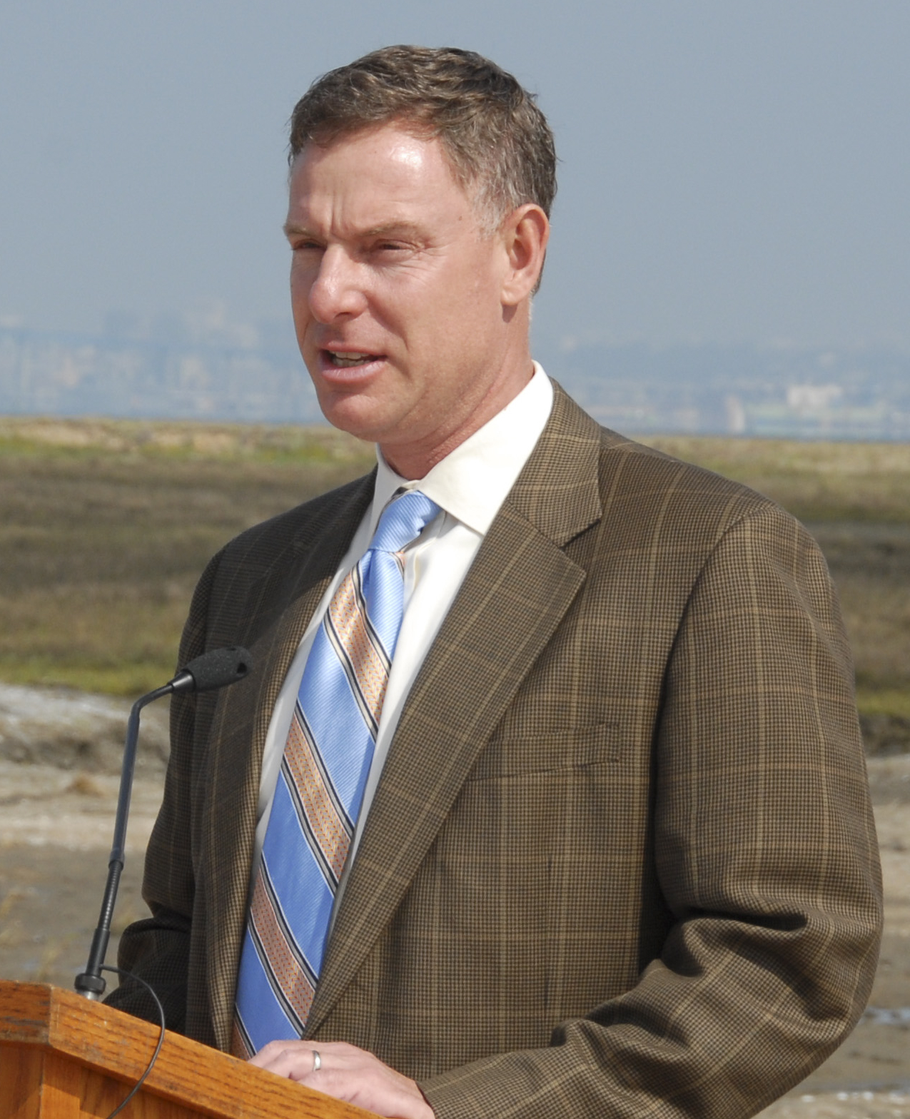 Scott Peters, Chairman, Board of Port Commissioners